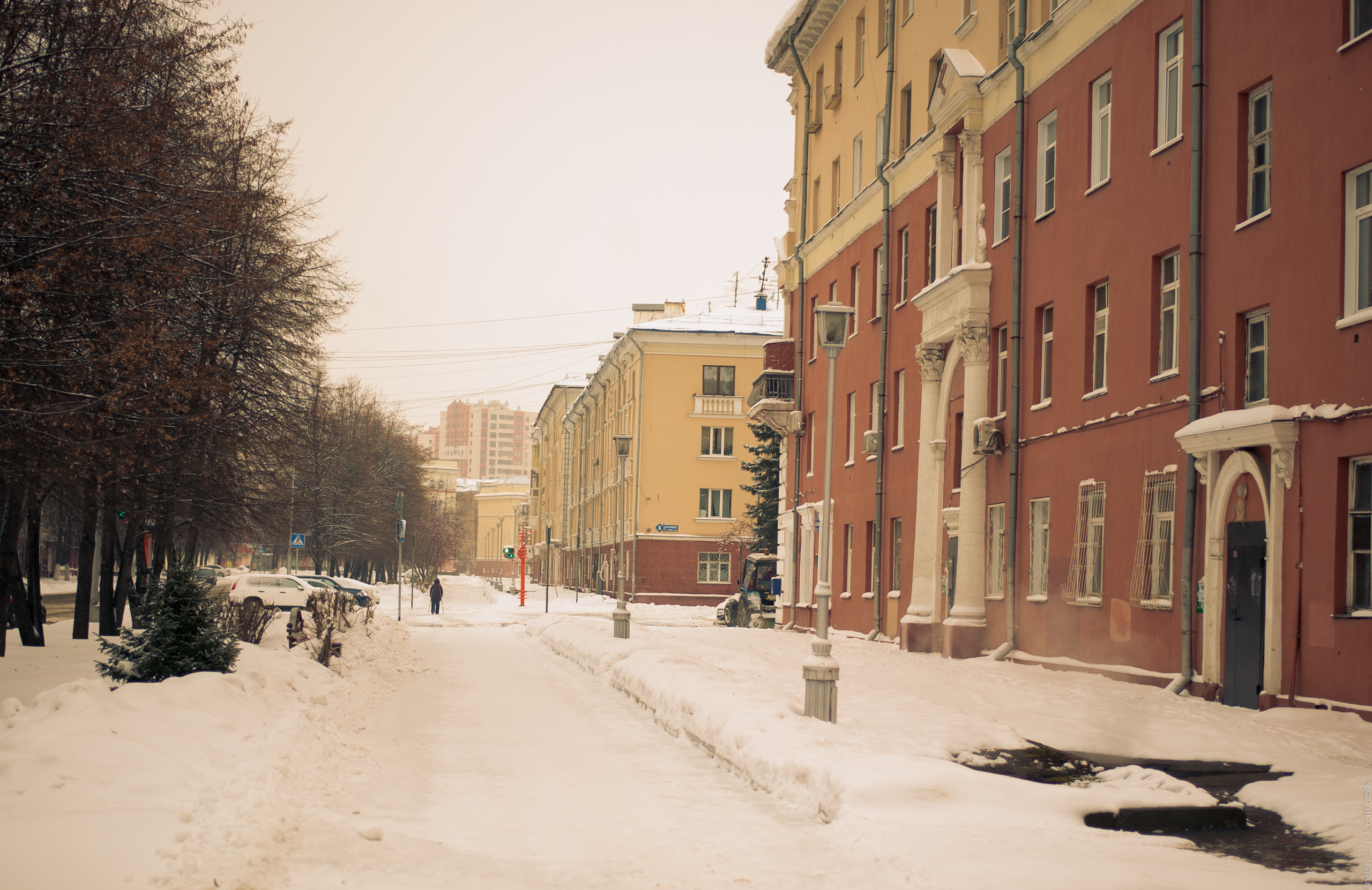 An empty street in Kemerovo, Russia